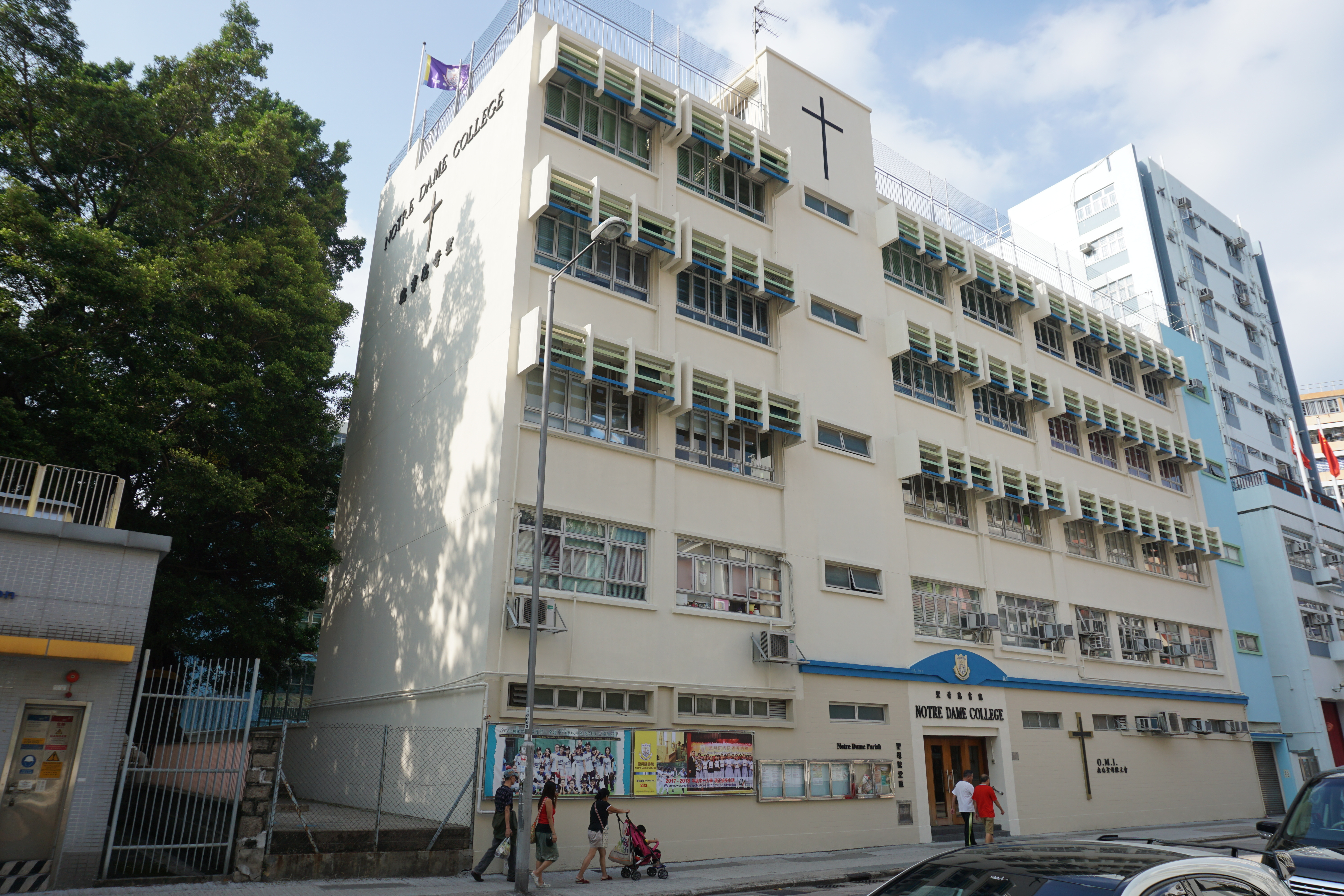 Notre Dame College in Ma Tau Wai, Hong Kong.